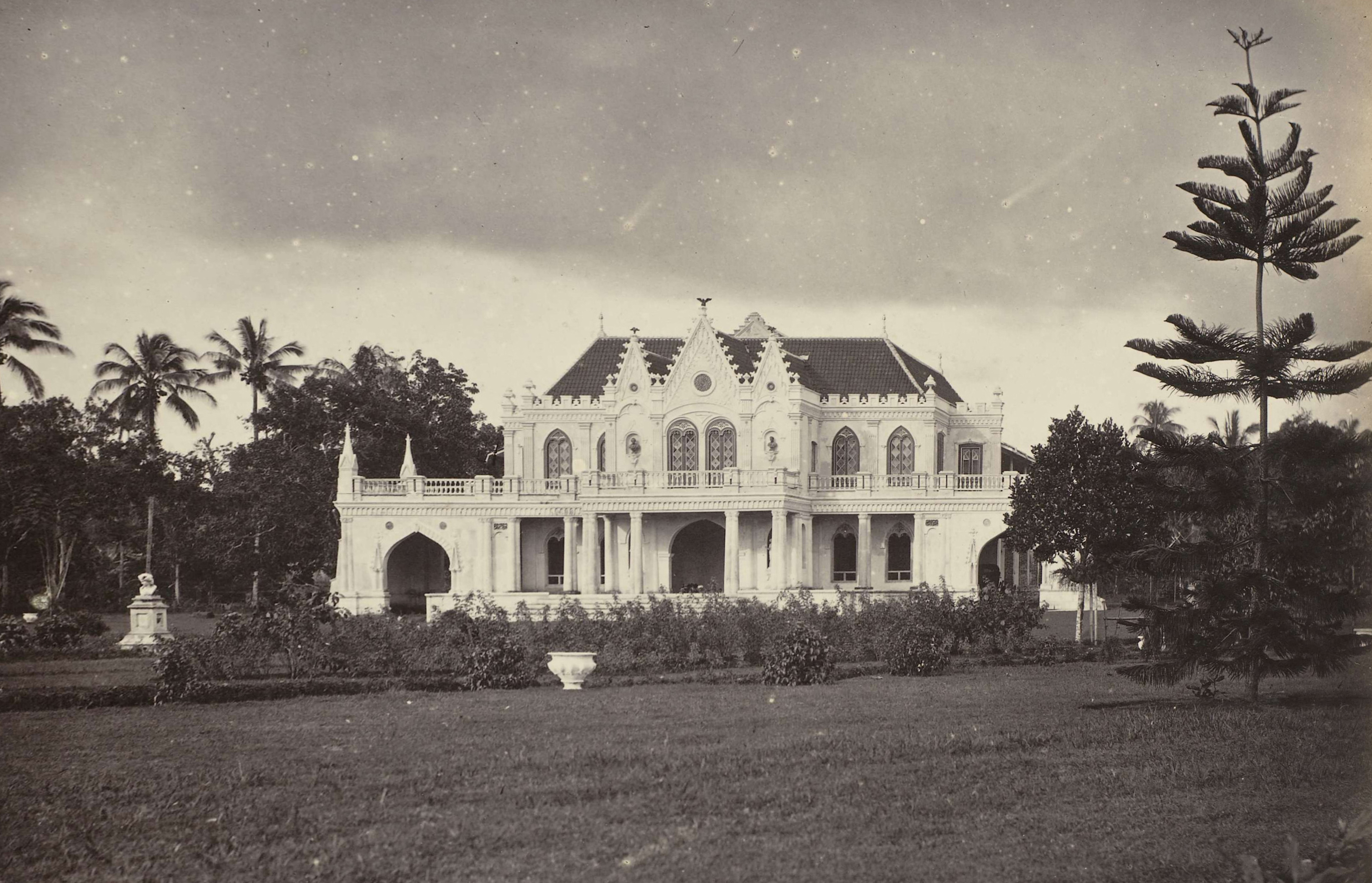 Villa of Raden Saleh, by Woodbury & Page. Edited to straighten the verticals and horizontals